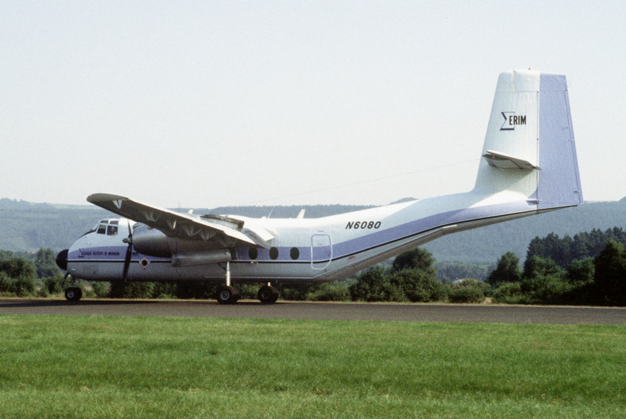 A De Havilland Canada DHC-4 Caribou (civil registration N6080) of the Environmental Research Institute of Michigan (USA) at Ramstein Air Base, Germany, on 1 July 1980. The aircraft was the 2nd production DHC-4 and never served with the military. It was acquired by the ERIM in 1977 and served 20 years. It was then parked unused at least until 2004 at Willw Run airport.